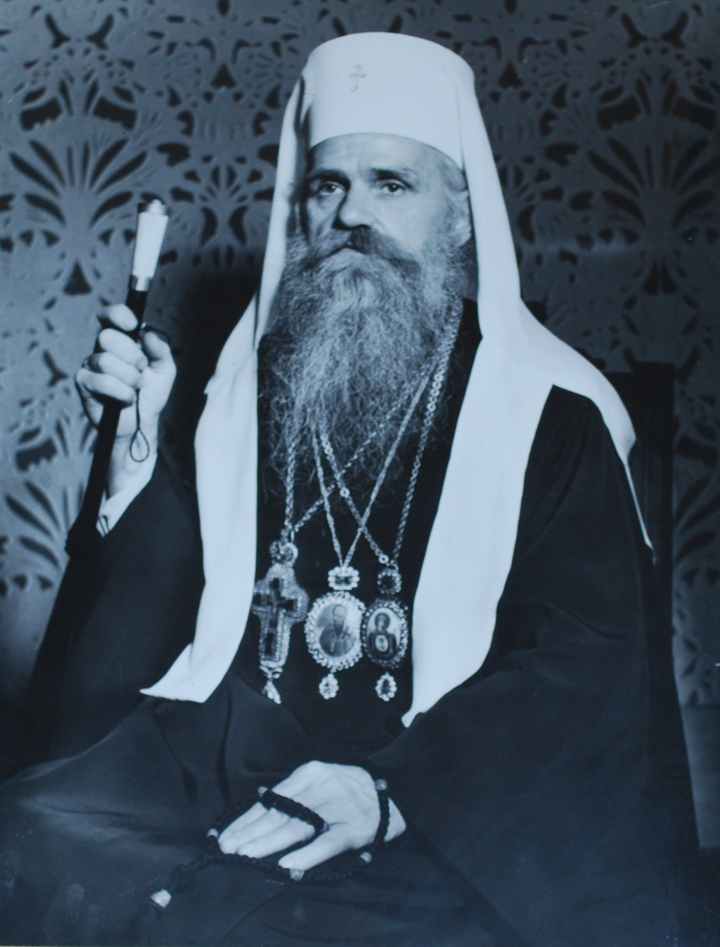 Portrait of Dositheus II. The image is a crop version of this file.